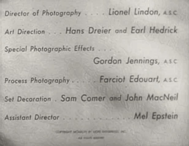 My Favorite Brunette - opening credits